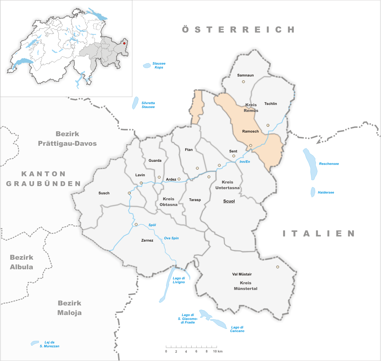 Municipality Ramosch